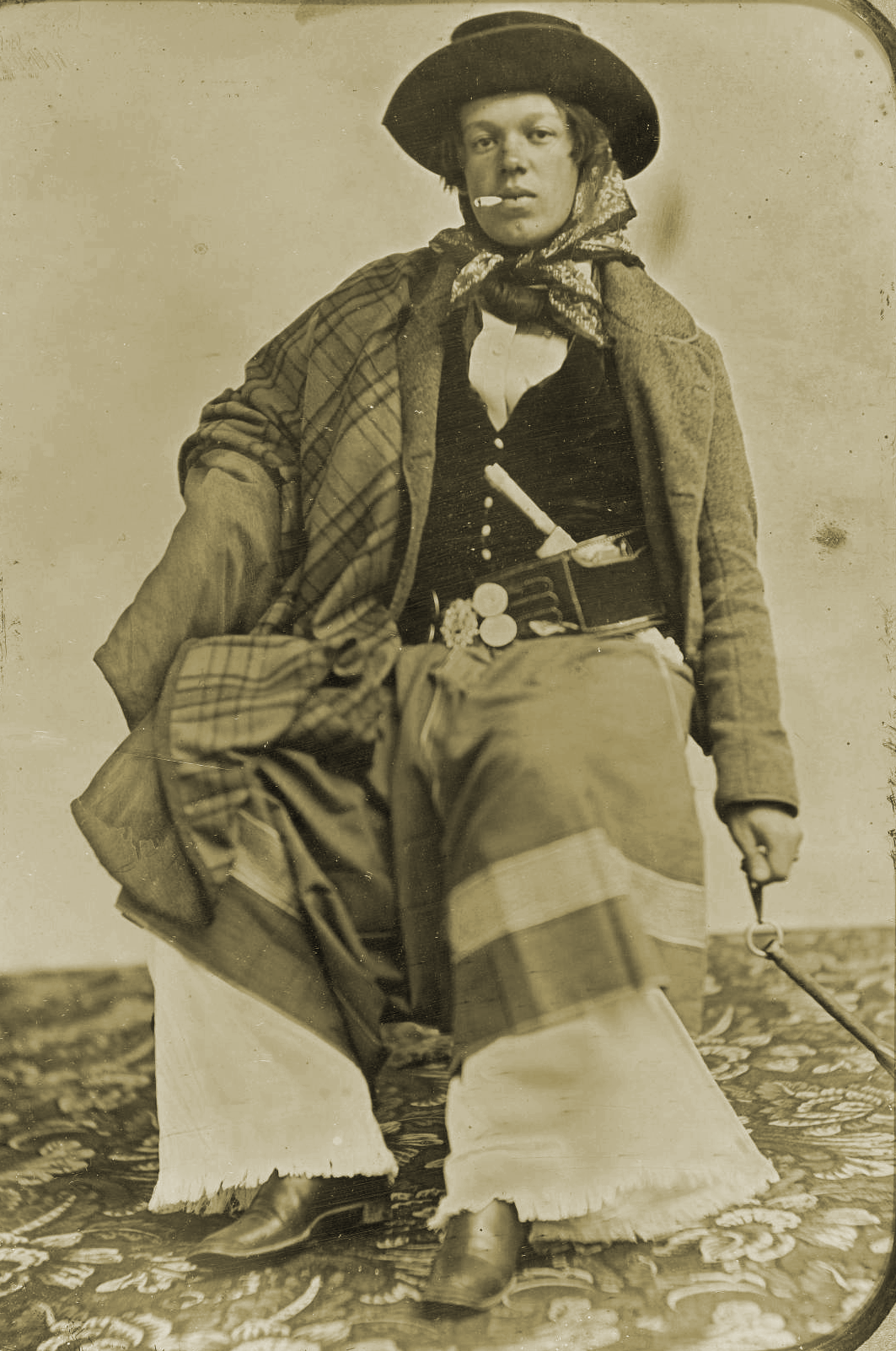 The Gaucho: Found principally in parts of Argentina, Uruguay, Southern Chile, and Southern Region, Brazil, the gauchos made up the majority of the rural populatio. The subject was photographed in authentic habiliments, including poncho, greatcoat, bombachas, chiripá, wide leather belt festooned with silver coins known as a rastra, long-bladed facon knife, and a rebenque whip.